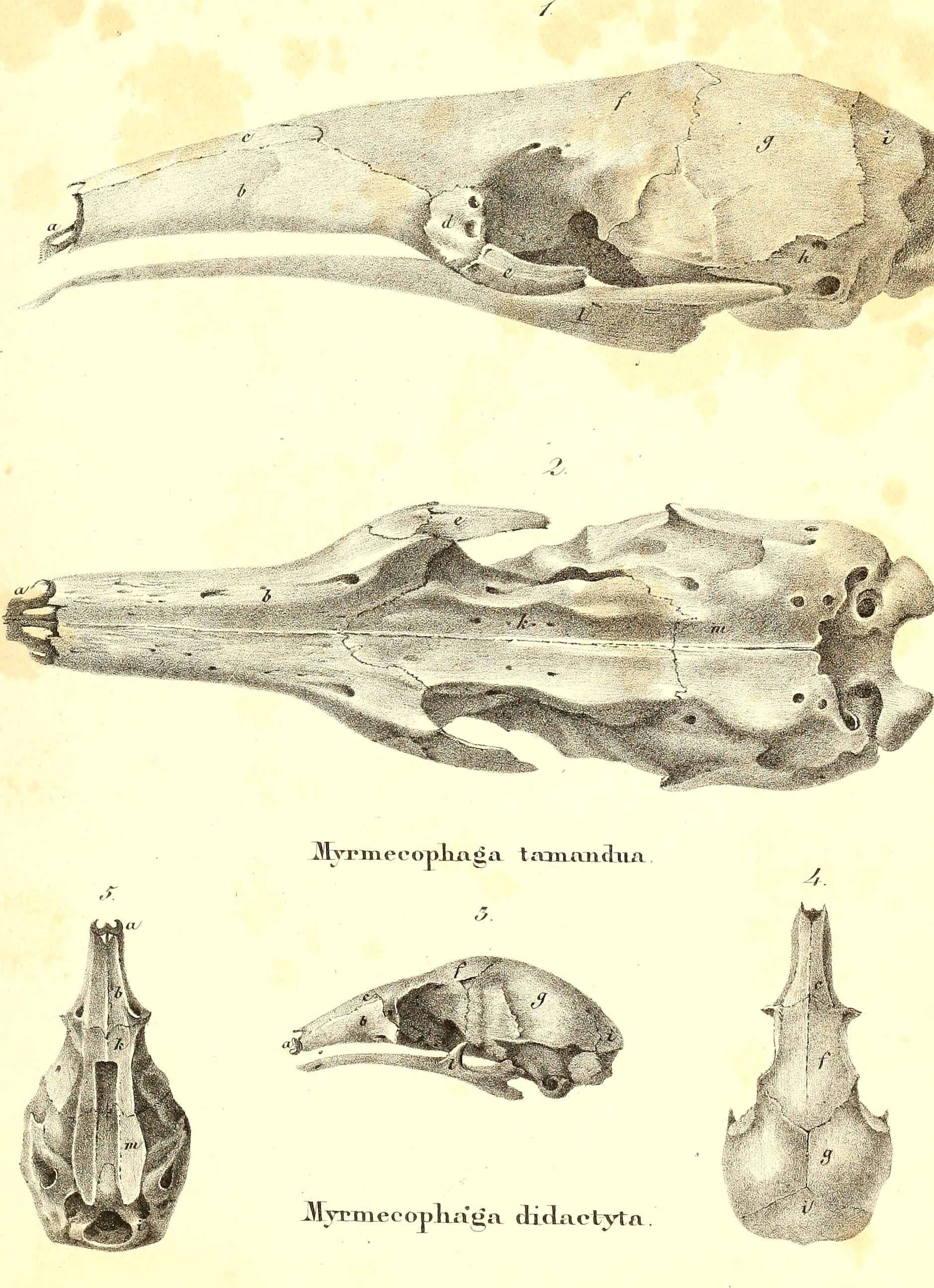 Title: Anatomische Untersuchungen über die Edentaten Year: 1852 (1850s) Authors: Rapp, Wilhelm Ludwig von, 1794-1868 Subjects: Xenarthra Publisher: Tübingen : L. F. Fues Text Appearing Before Image: ' Text Appearing After Image: '